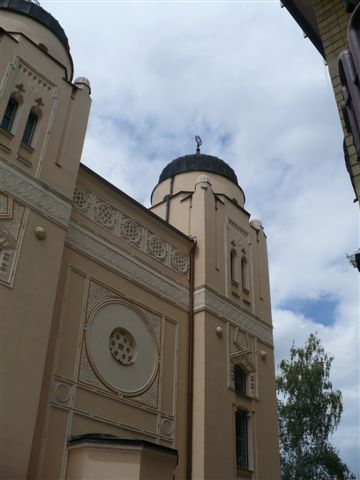 Synagogue in Sarajevo